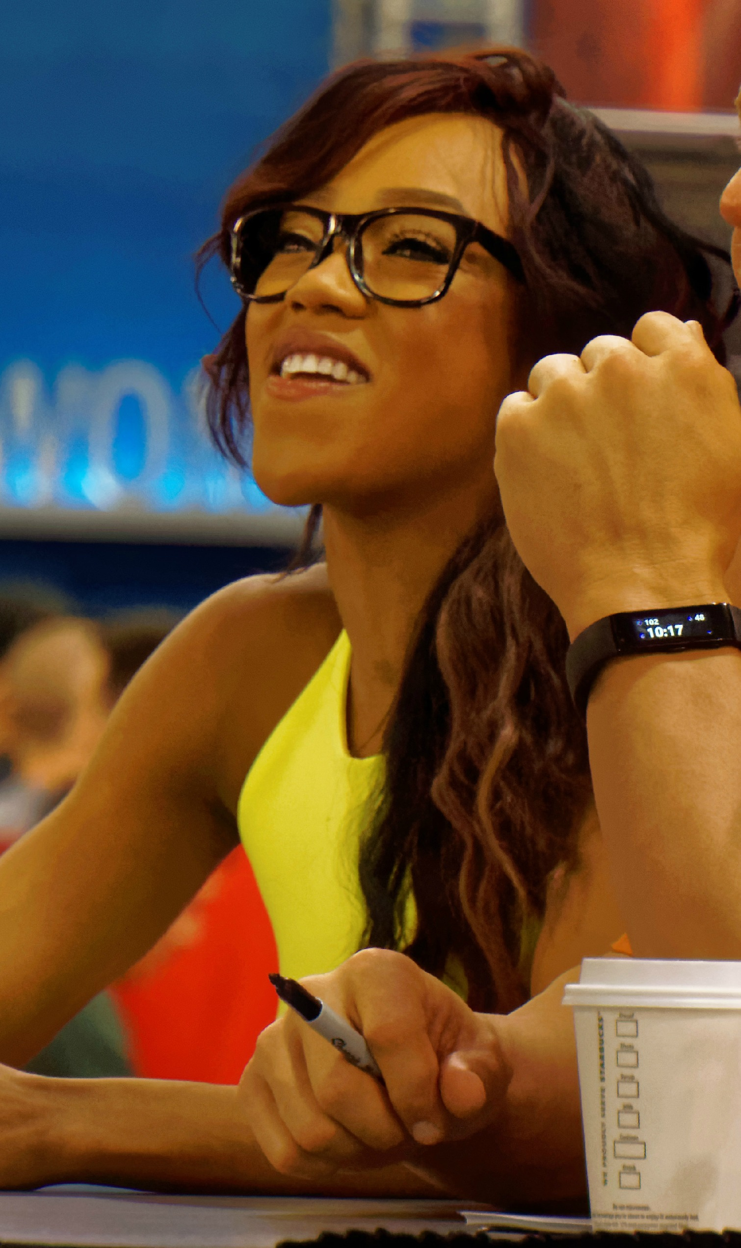 Alicia Fox At WrestleMania Axxess 2015.